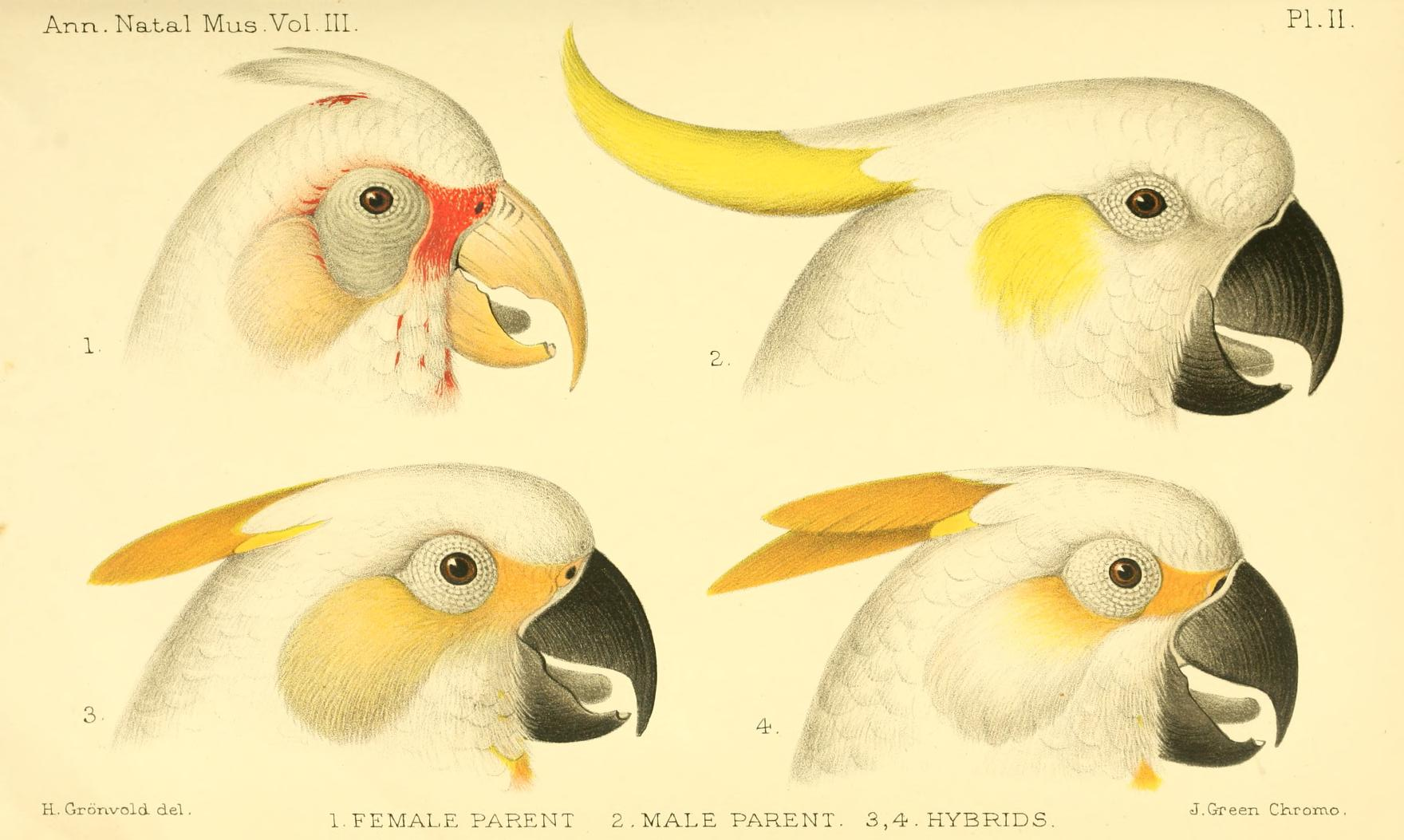 1. Cacatua tenuirostris female; 2. Cacatua galerita male. 3,4 - hybrids